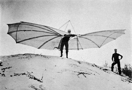 Photograph of Octave Chanute's assistant A.M. Herring, prepared to launch from a dune top in a glider based on the design of Otto Lilienthal, in the early summer of 1896 at Miller Beach, in present-day Gary, Indiana.